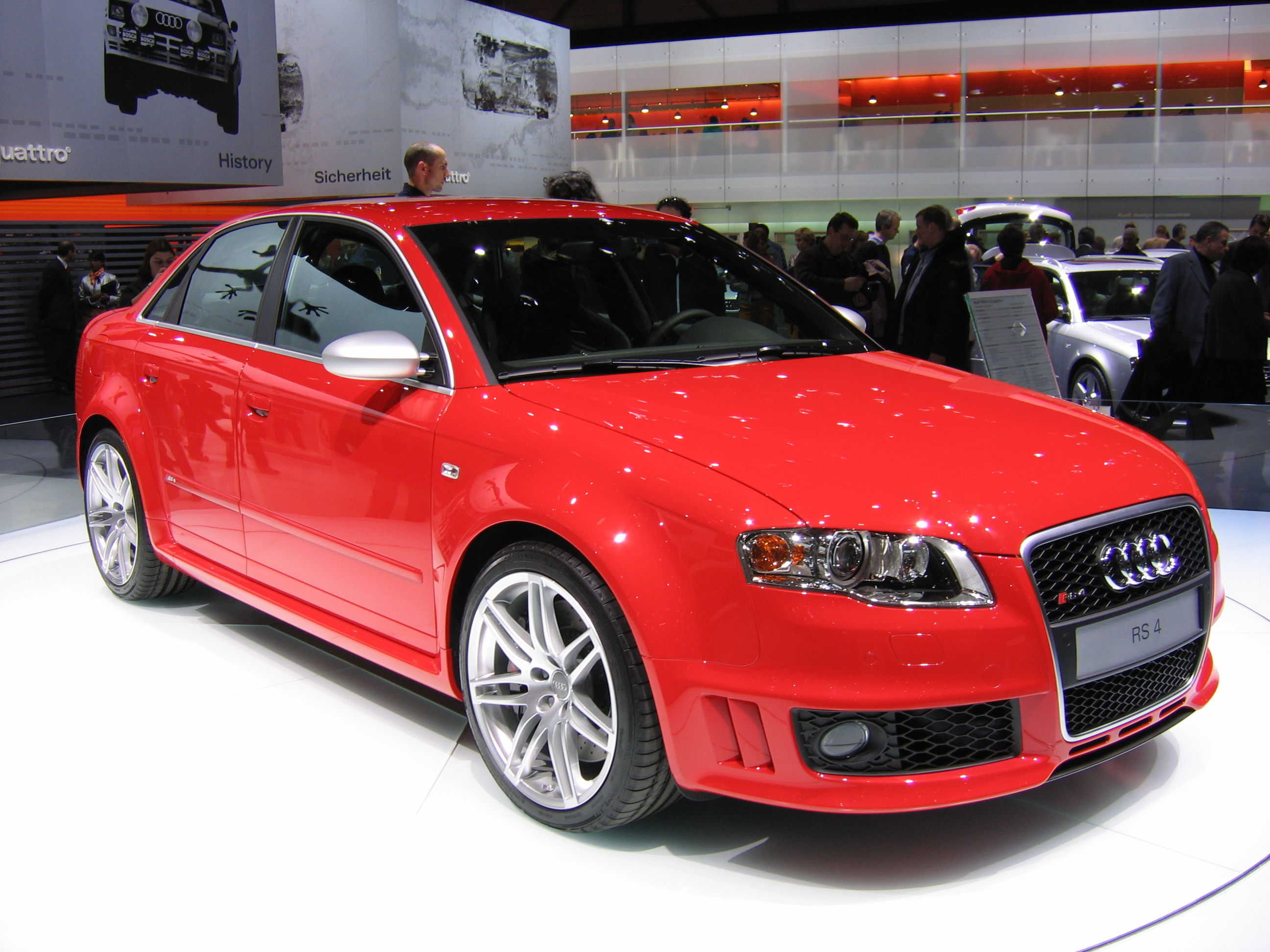 Geneva Motor Show 2005